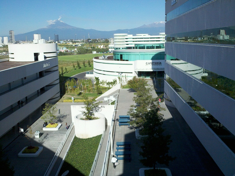 ITESM Campus Puebla hallways and the students restaurant "Cafetería El Borrego"